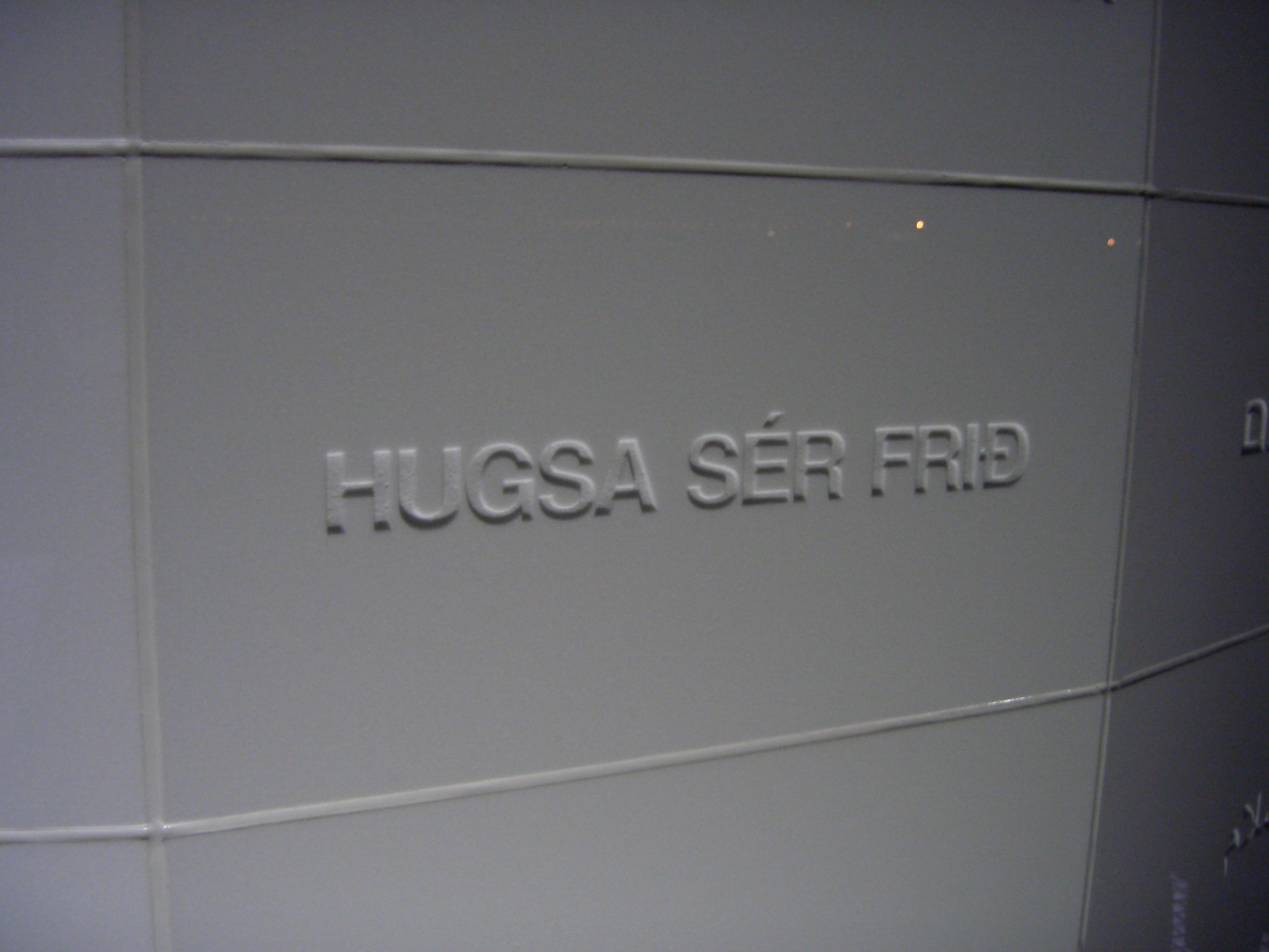 One of 25 languages that the words "Imagine Peace" is written on the Imagine Peace Tower in Iceland